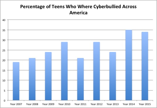 Percentage of Victims of Cyberbullying By Year Across America